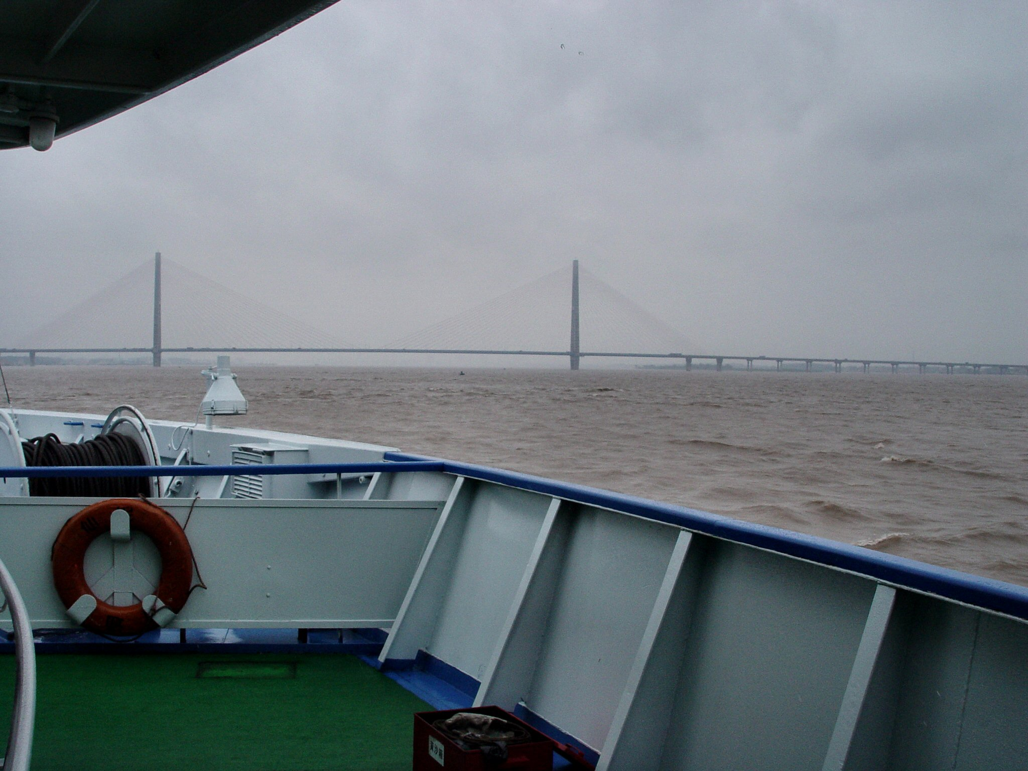 The Baishazhou Bridge across the Chang Jiang in Wuhan